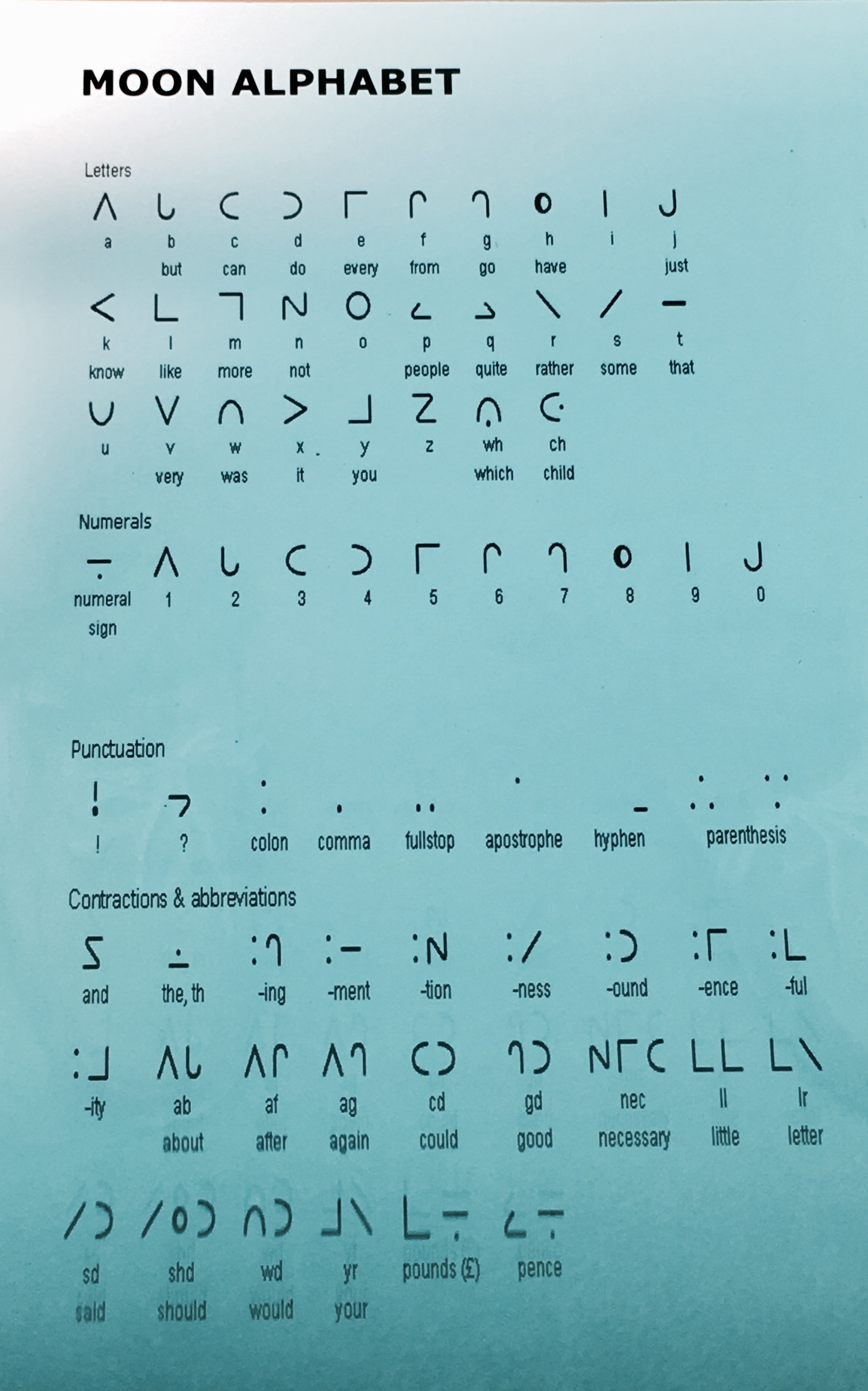 Moon System of Embossed Reading